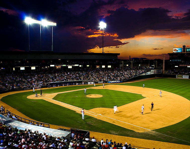 Photo of Dell Diamond stadium looking west into the sunset